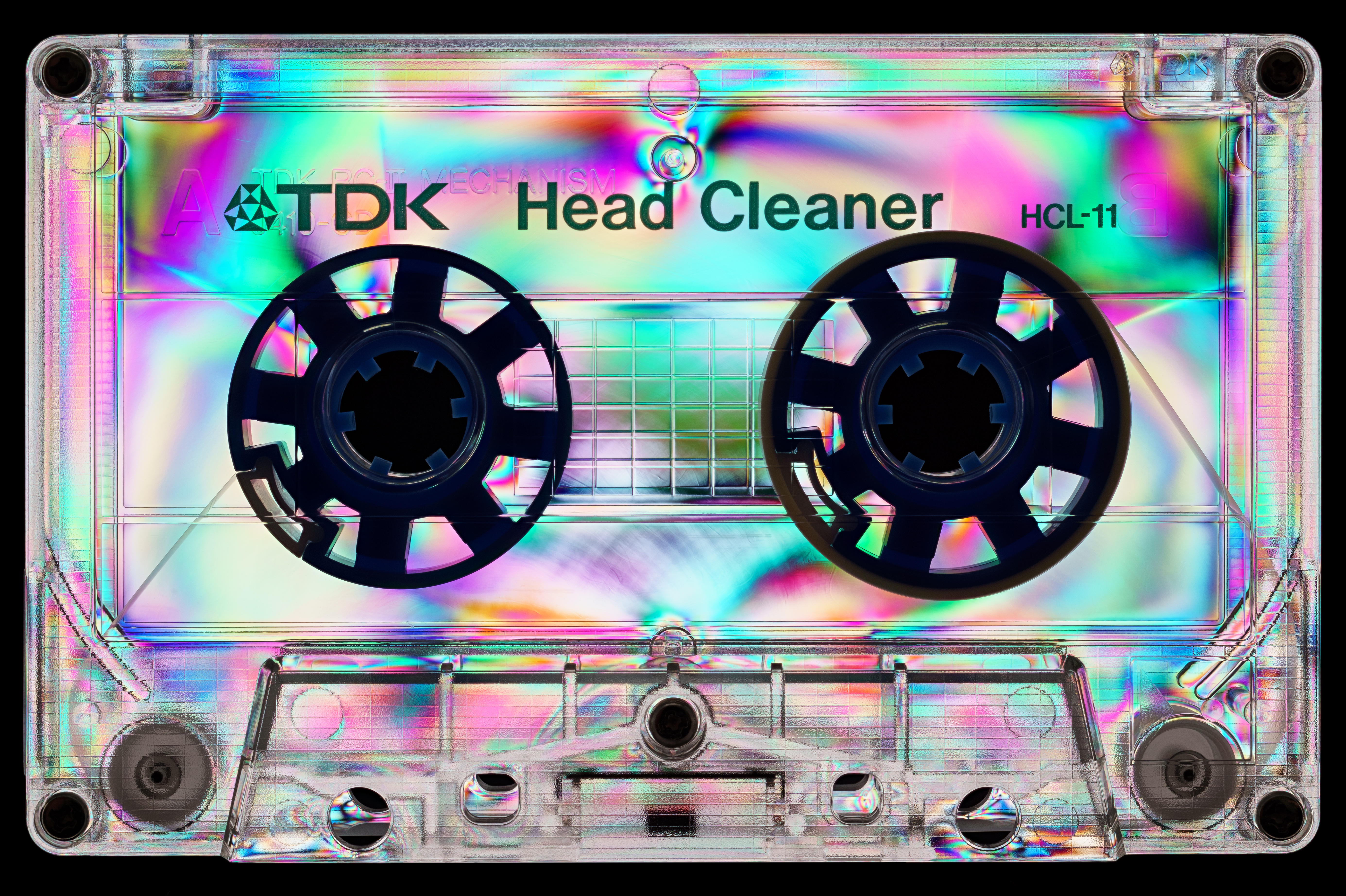 TDK tape head cleaner cassette "HCL-11" made of clear hard plastic. The plastic is birefringent and demonstrates internal stress as coloured patterns (photoelasticity) when photographed using cross polarisation. The polarising light source (an LCD monitor) has been rotated such that the polarising filter on the lens is oppositely oriented and so cuts out all the direct light, leaving a black background.